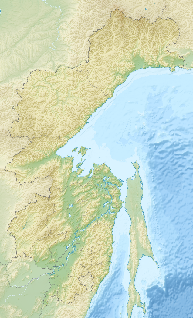 Khabarovsk Krai relief location map Equirectangular projection, N/S stretching 174 %. True scale parallel: 55°00' N. Geographic limits of the map: N: 63.0° N S: 46.0° N W: 130.0° E E: 148.0° E